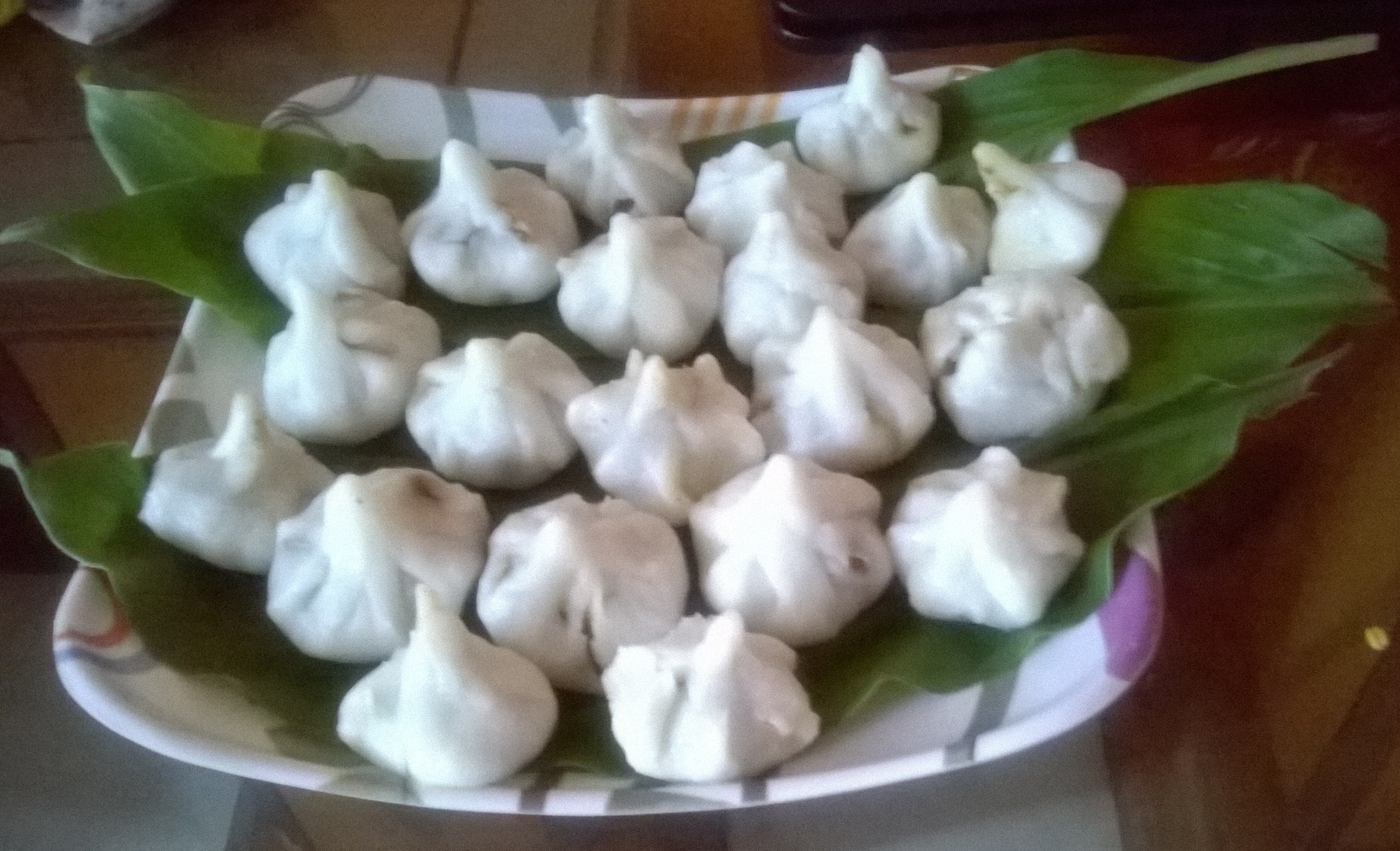 These are Ukdiche Modak prepared in almost every house during Ganpati festival.